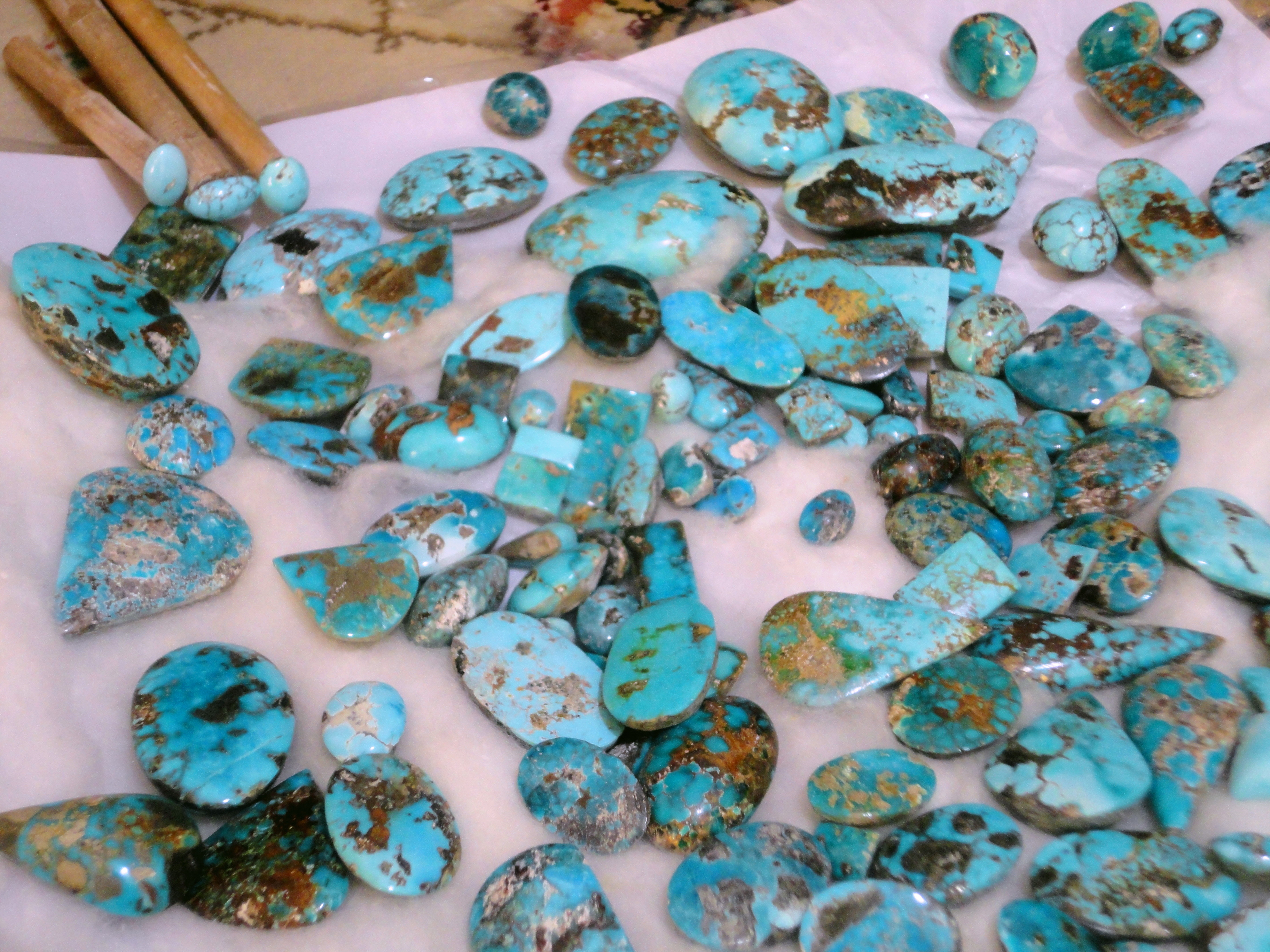 Turquoise of Nishapur - village of Ma'dan